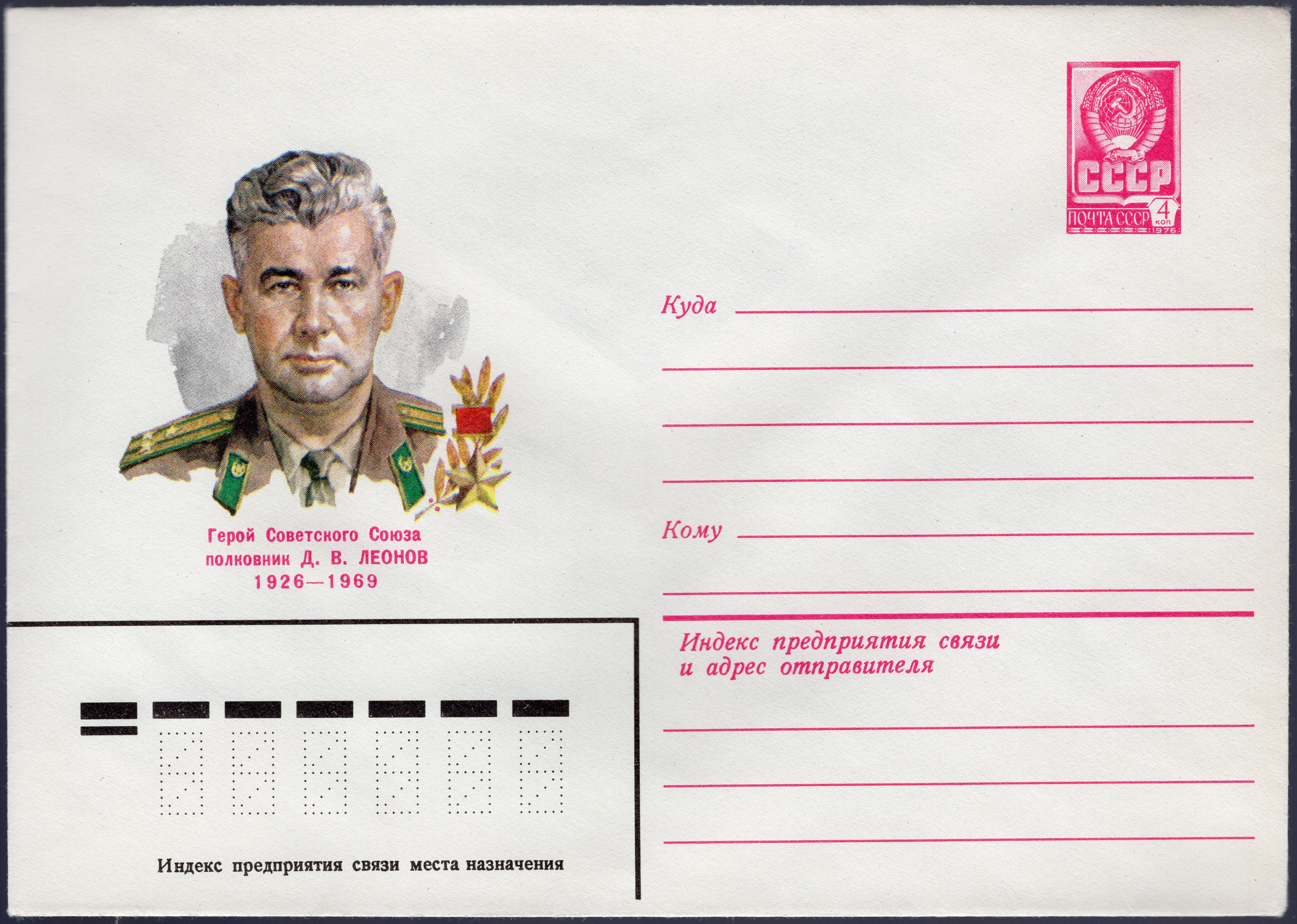 Hero of the Soviet Union Colonel Demokrat Leonov. 1926-1969. Series: Heroes of the Soviet Union. Artist Peter Bendel.